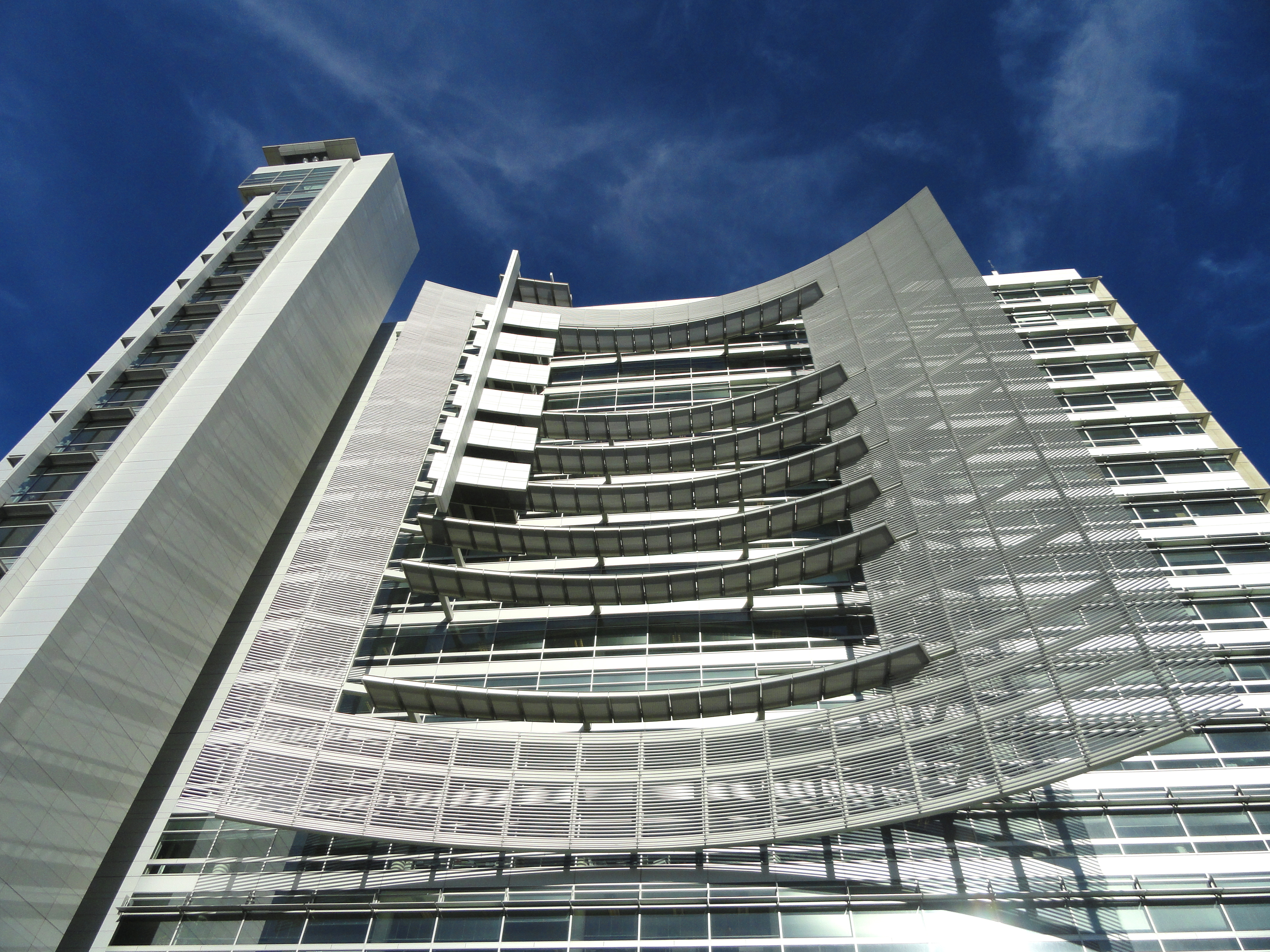 San Jose City Hall, San Jose, California, USA.